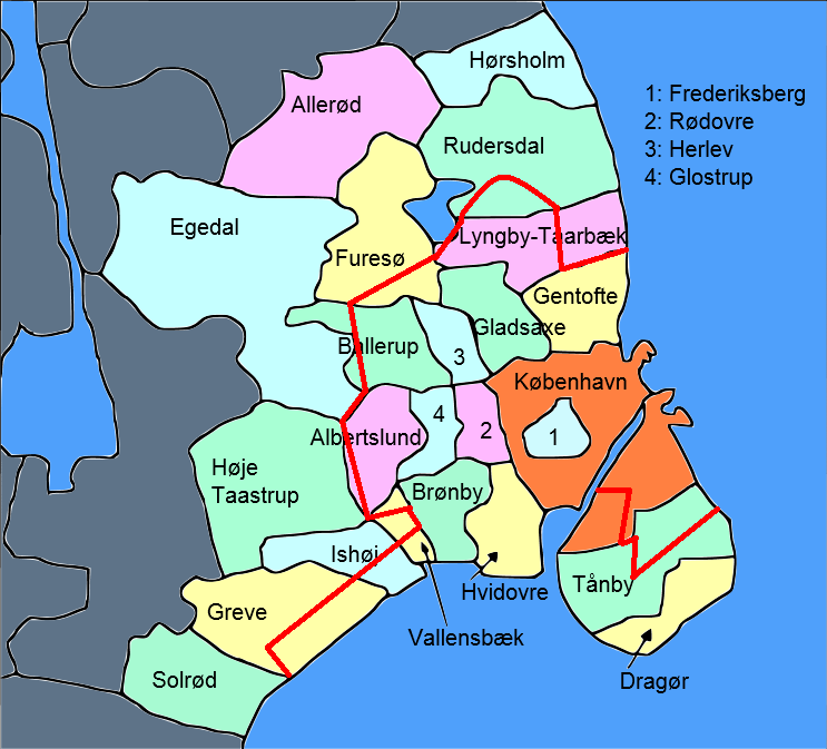 Political map of Copenhagen and surroundings with urban area of the city of Copenhagen marked